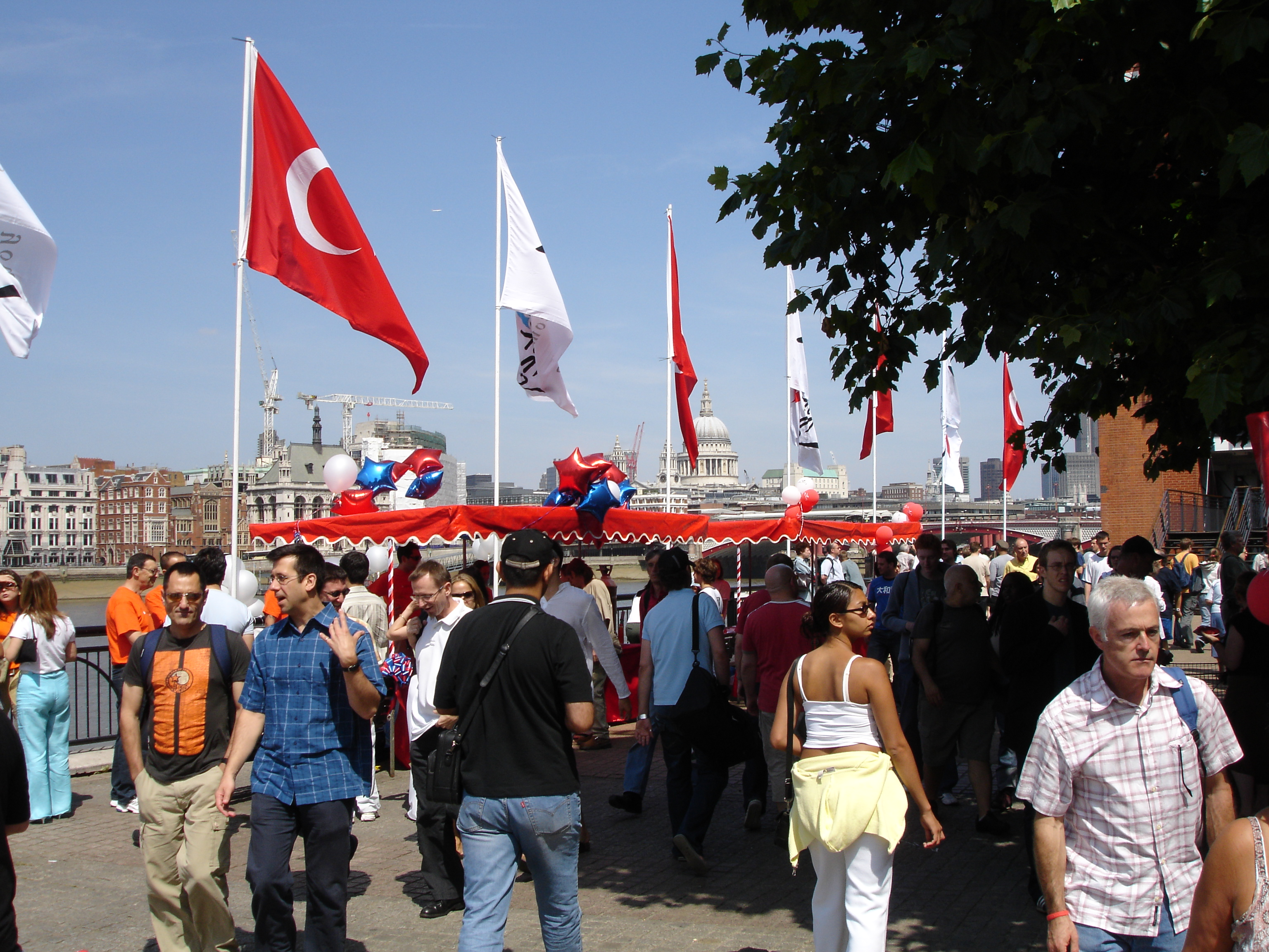 Turkish festival in Southbank, London.